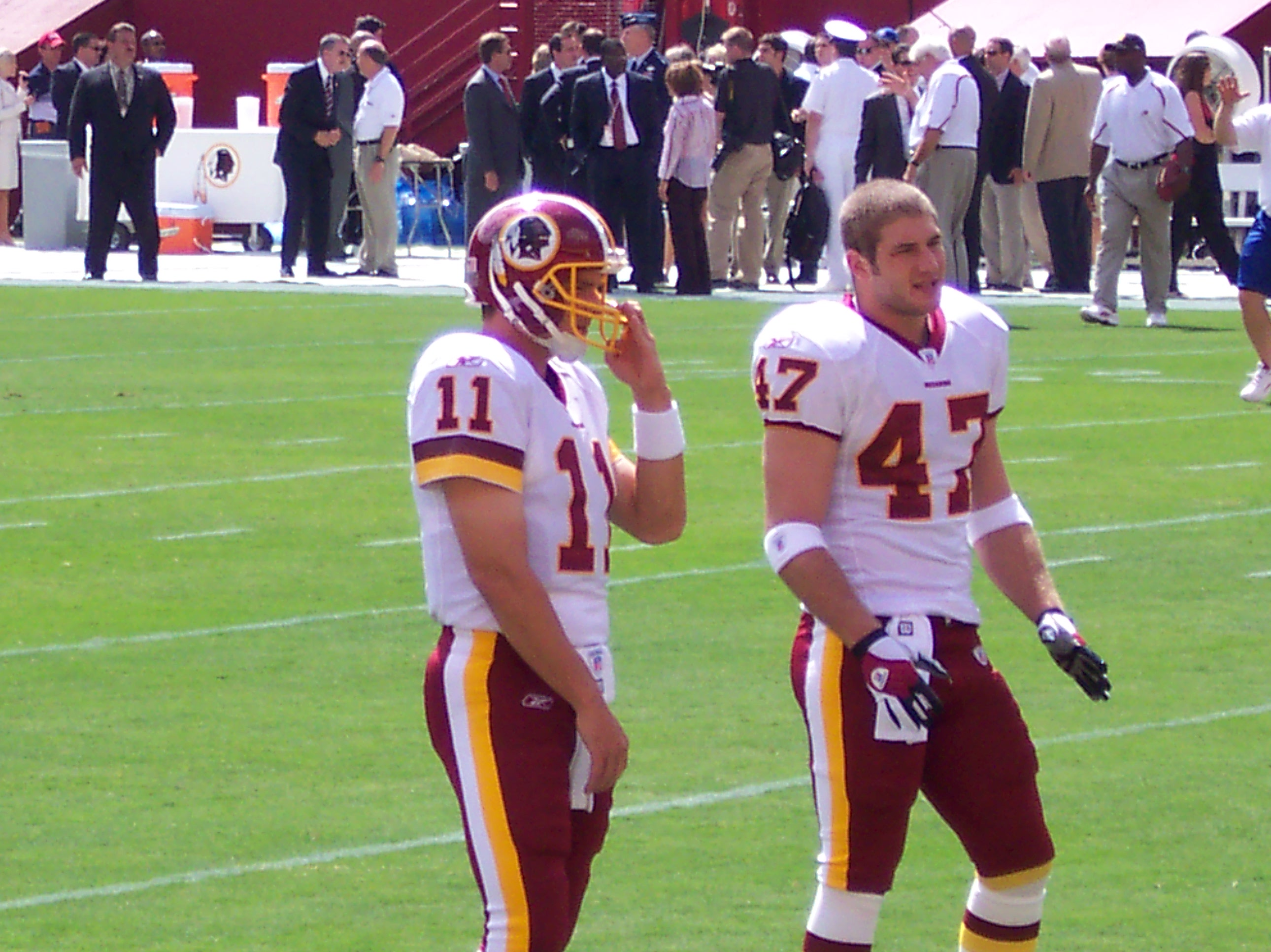 Washington Redskins quarterback Patrick Ramsey and tight end Chris Cooley talk before a game in 2005.